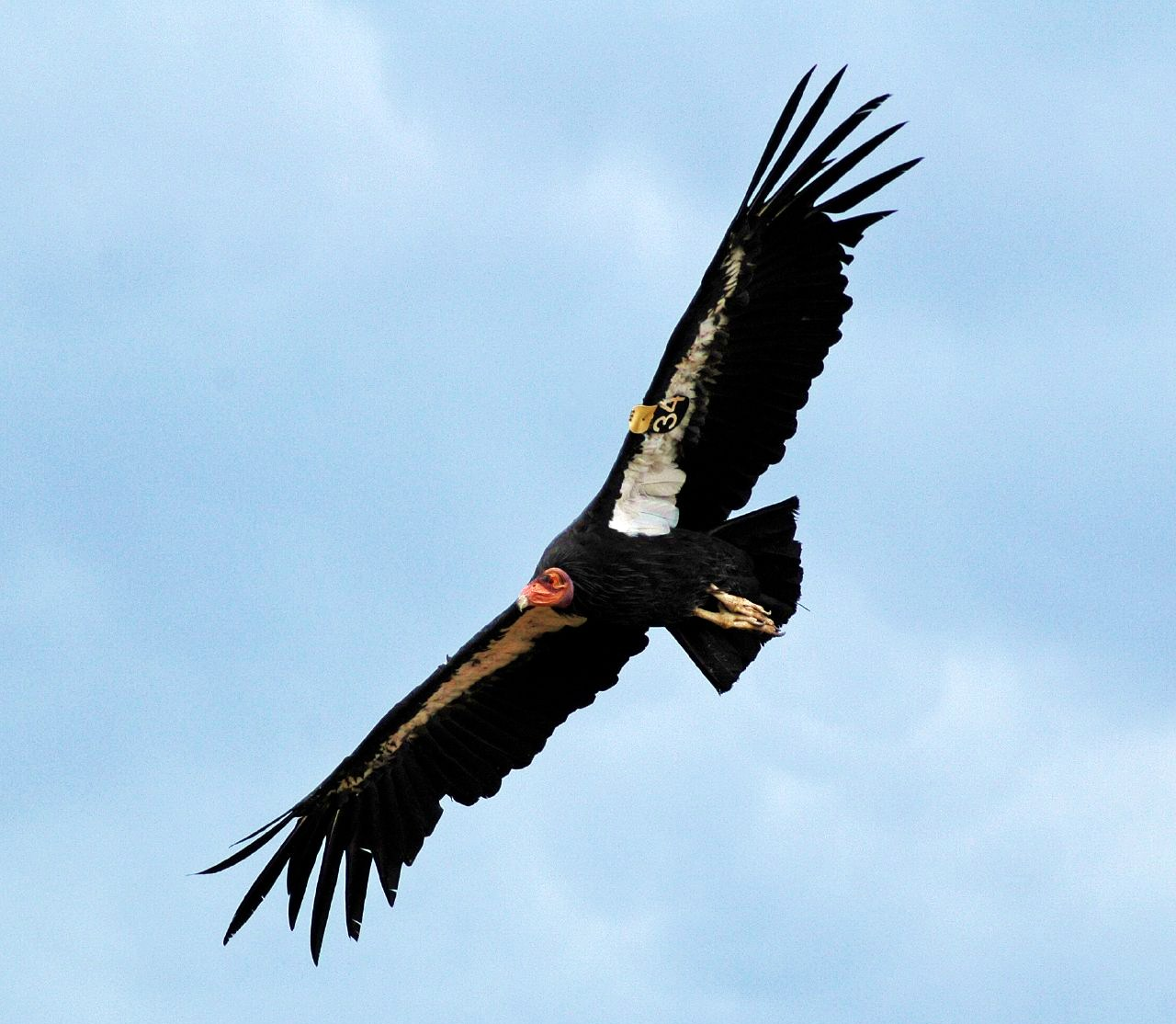 (1 in a multiple picture album) This is a stock photo of a California Condor in flight. When you see them sitting they are just a blob of black and they don't look that large. There is not much beauty to them. Their face is one only a mother could love. BUT . . . when they fly, they are beautiful. I watched one soar over the Grand Canyon last week. He was something to see. When he had enough of soaring, he tucked in his wings and dive bombed down to a ledge, opening his wings again only just before landing. Amazing thing!